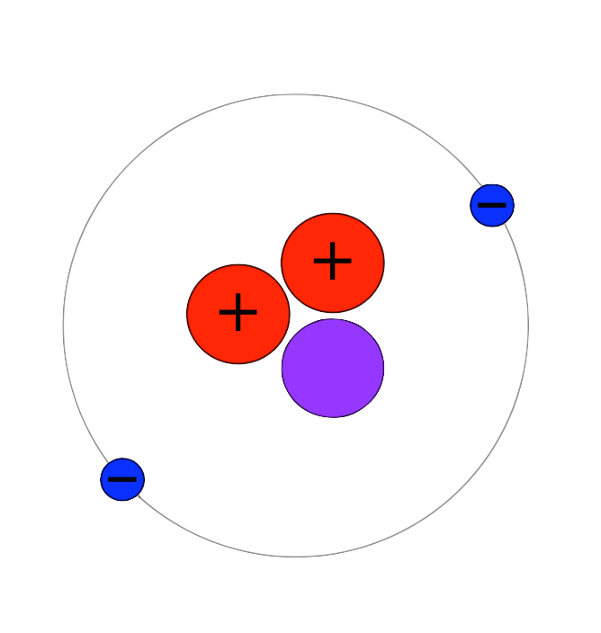 The atom of a Helium-3